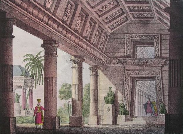 Gioachino Rossini - Semiramide - Alessandro Sanquirico - Milan 1824 - act 1, scene 8 - Atrio nella reggia